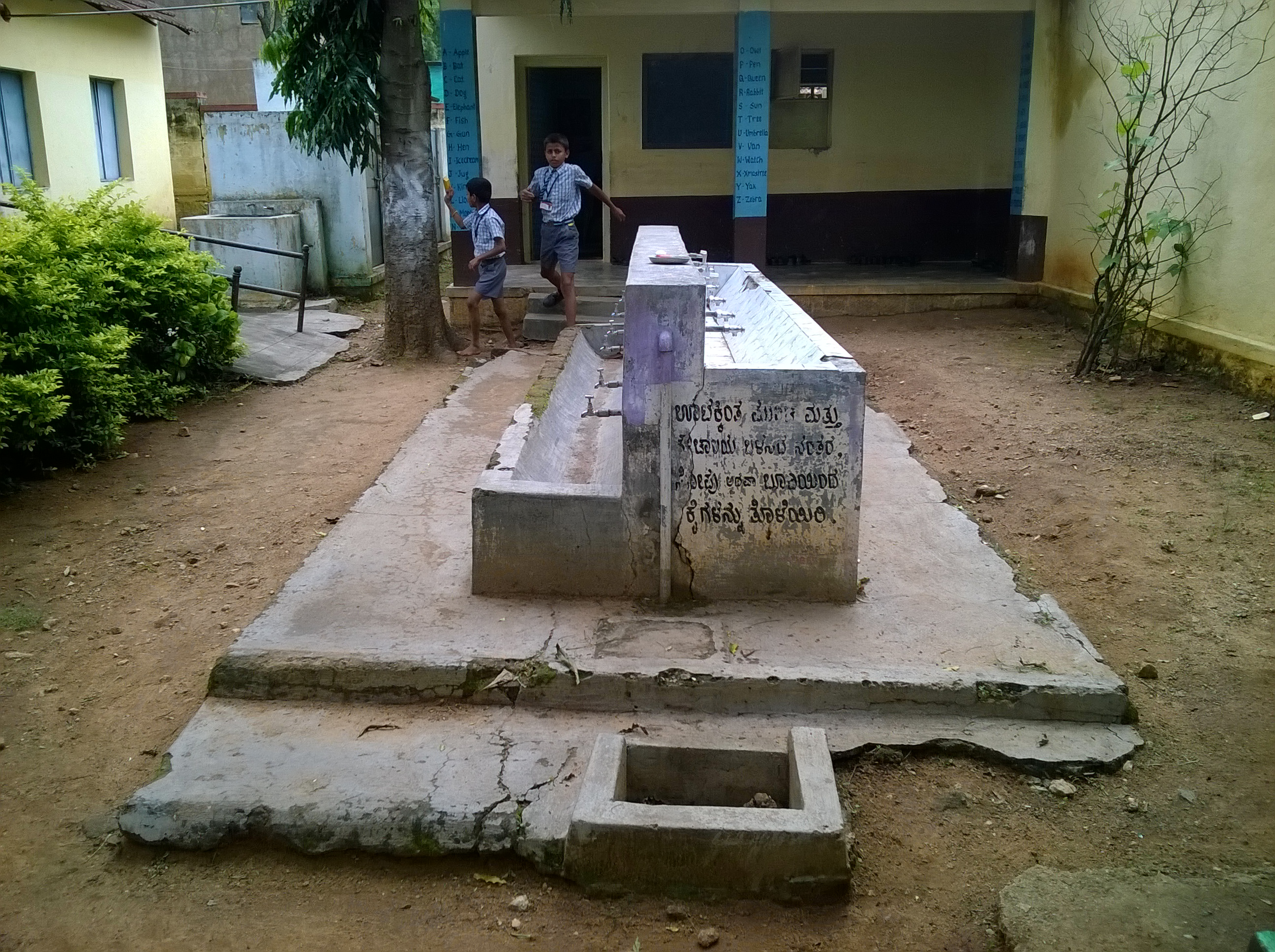 Photos taken for this report: . See also here: by Jacques-Edouard Tiberghien in 2016